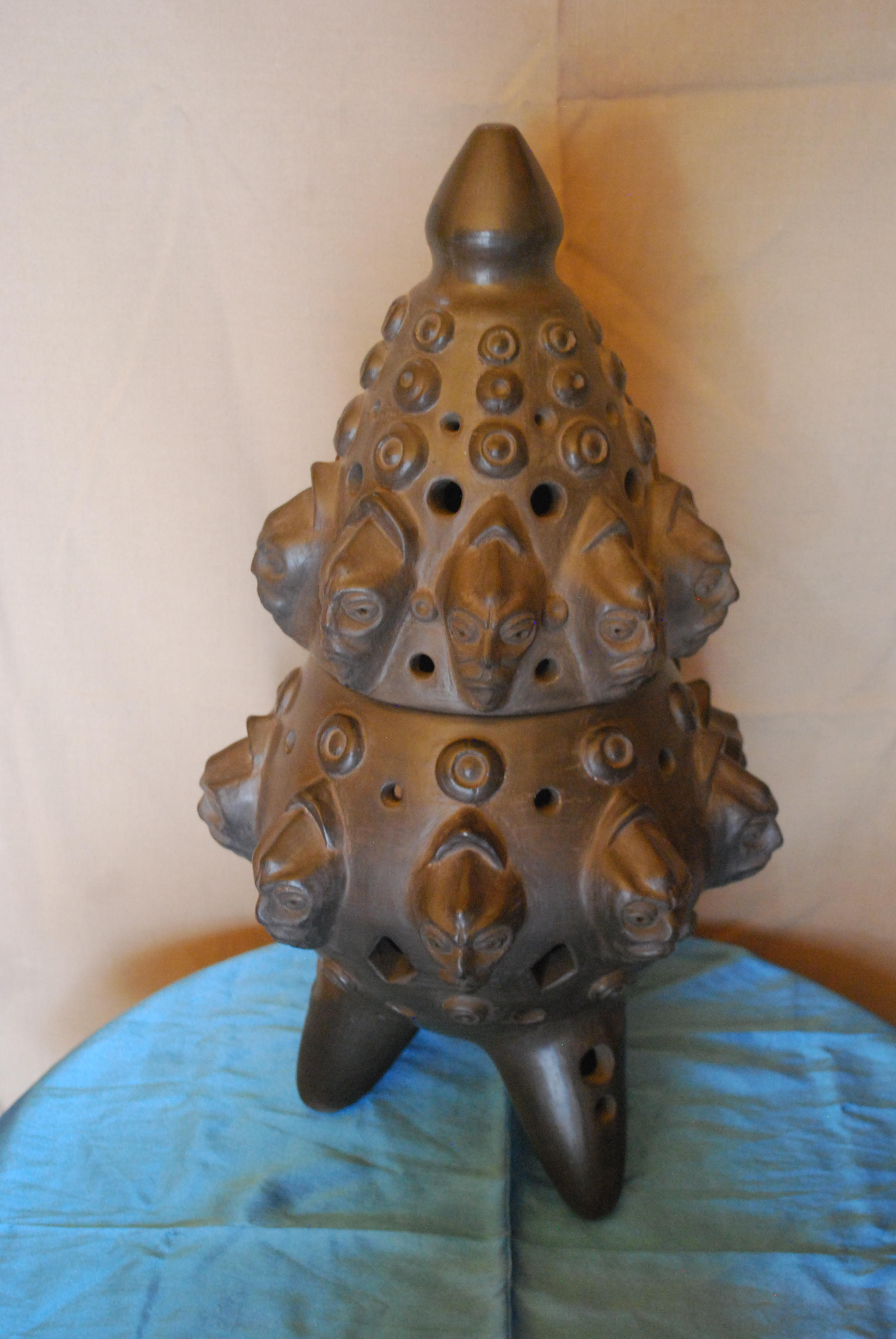 Ceramic temazcal brazier by Trinidad Núñez Quiñones at his workshop in Victoria de Durango, Mexico